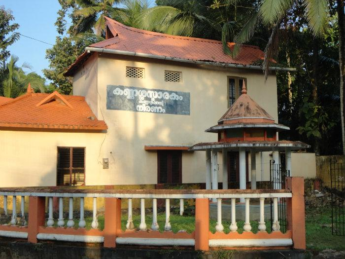 Kannassan Memorial Building at 9°20'53"N 76°31'41"E